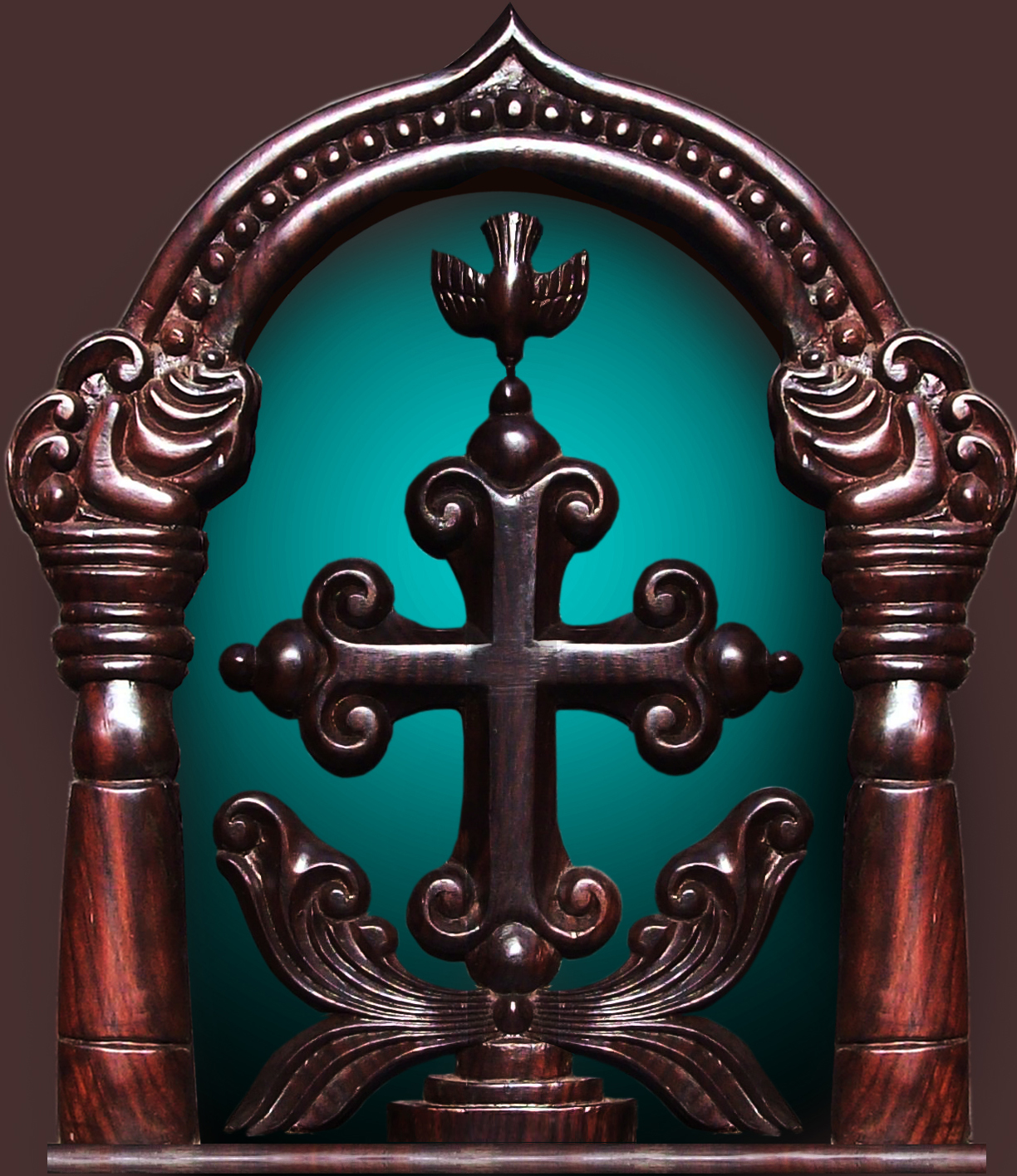 Mar Thoma Sliva symbolizes the identity of Saint Thomas Christians (also known as Syrian Christians or Nasranis) of Kerala, India.